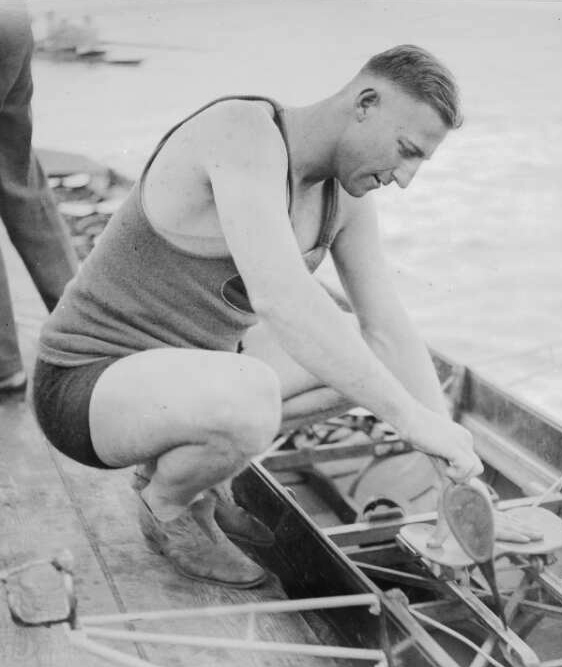 Olympic sculler Bobby Pearce oiling one of the slides of an eight, New South Wales, ca. 1930s.